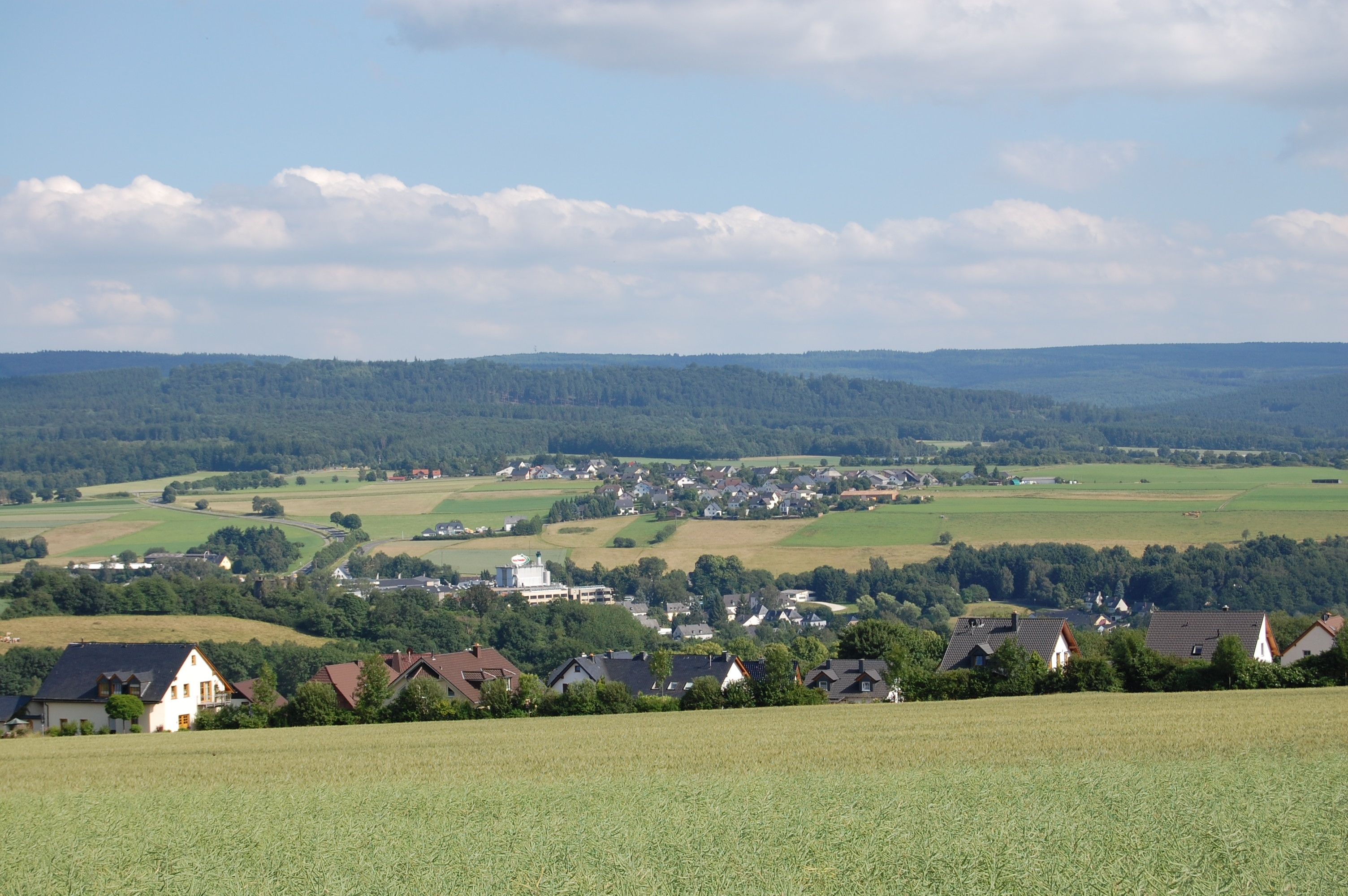 Villages Thalfang and Bäsch in the Hunsrück landscape, Germany